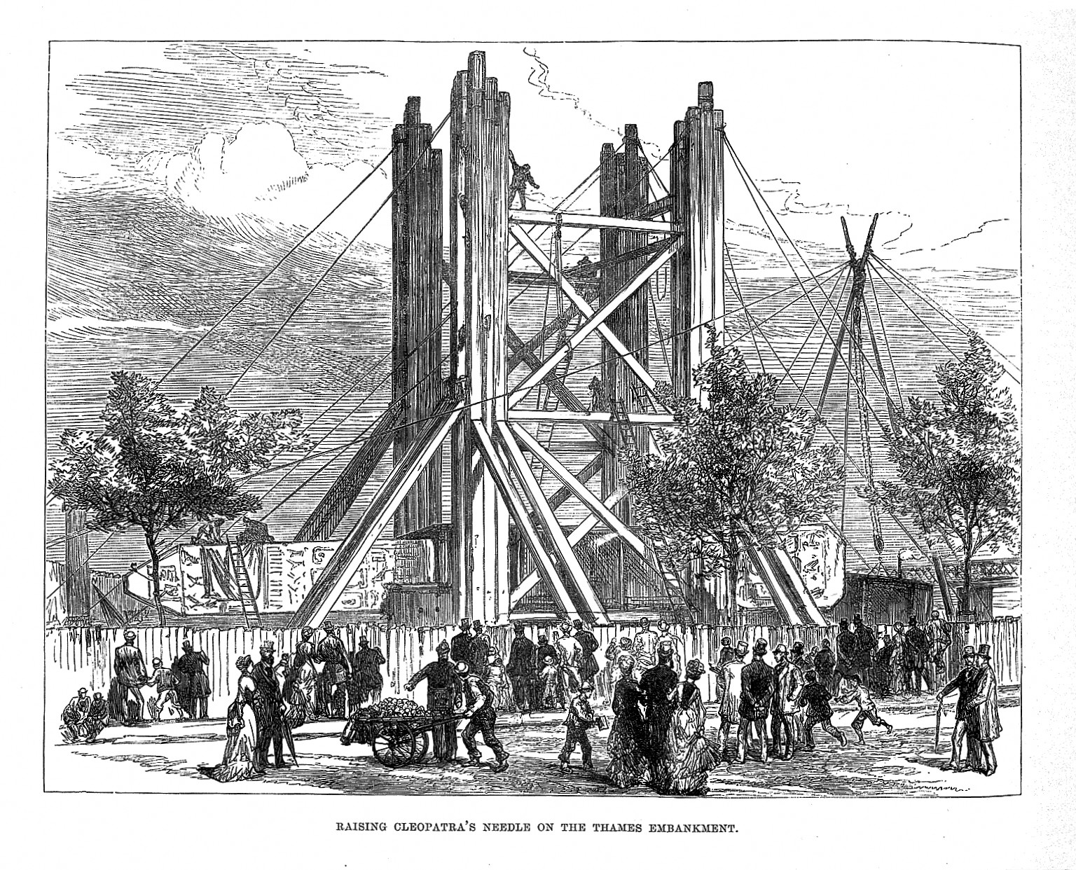 August 10, 'Raising Cleopatra's Needle on the Thames embankment' General Collections